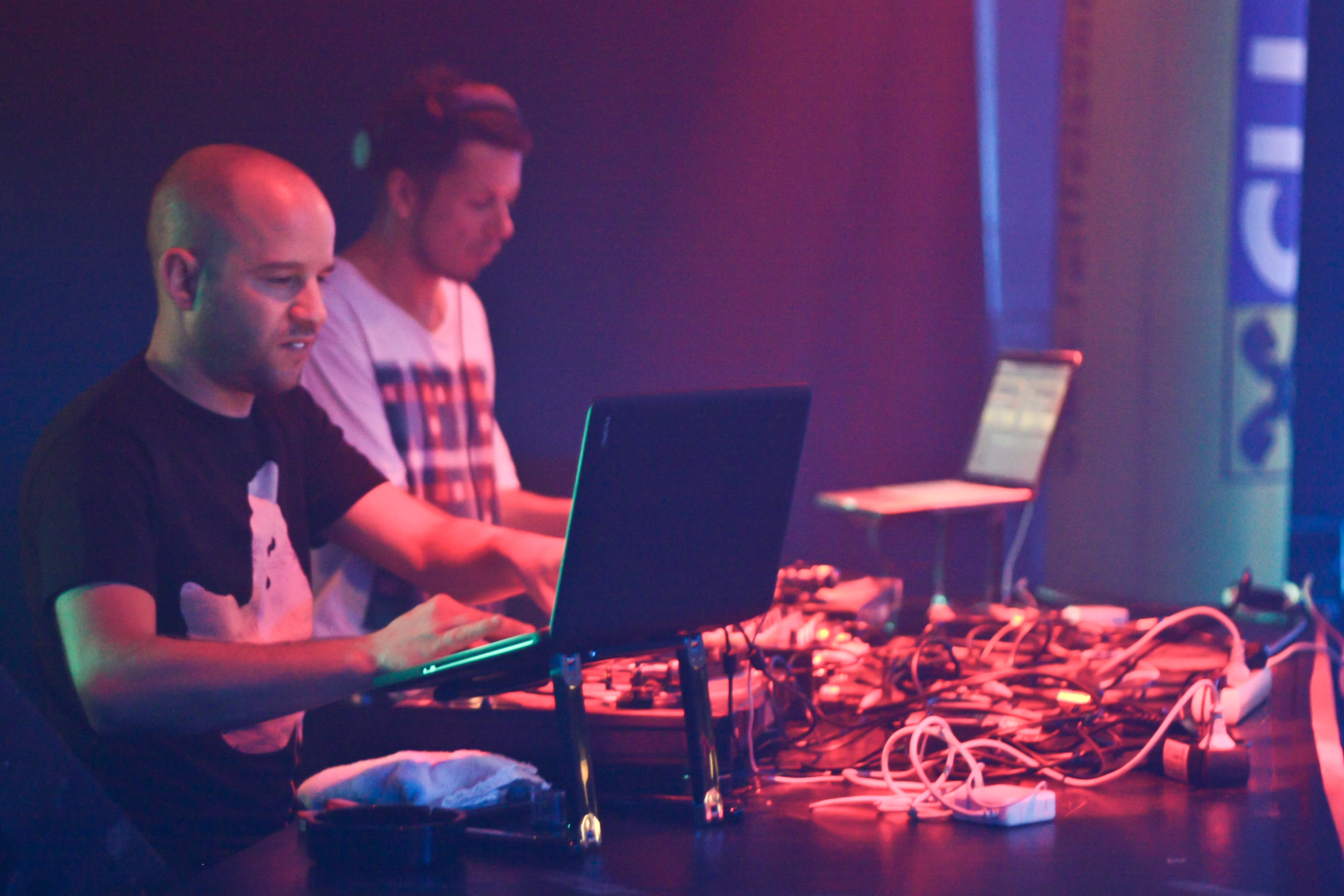 Turntablerocker at republic Salzburg